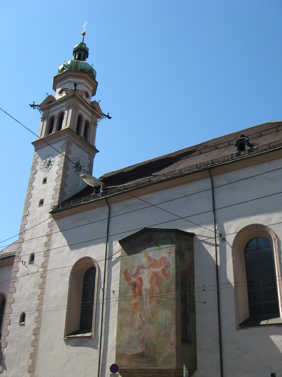 Servitenkirche in Innsbruck, Maria-Theresien-Straße